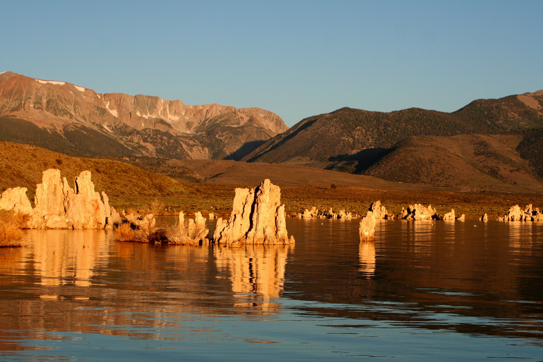 Tufa columns in Mono Lake, Eastern Sierra, Mono County, California